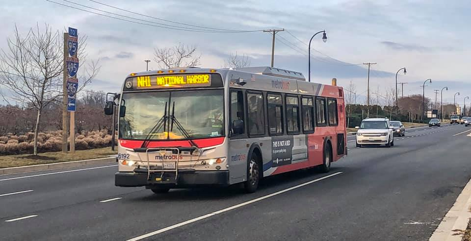 WMATA New Flyer D40LFR 6192 on the NH1